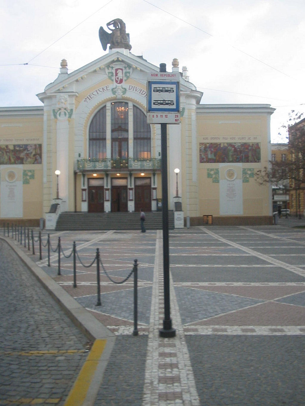 Bus stop, Pardubice